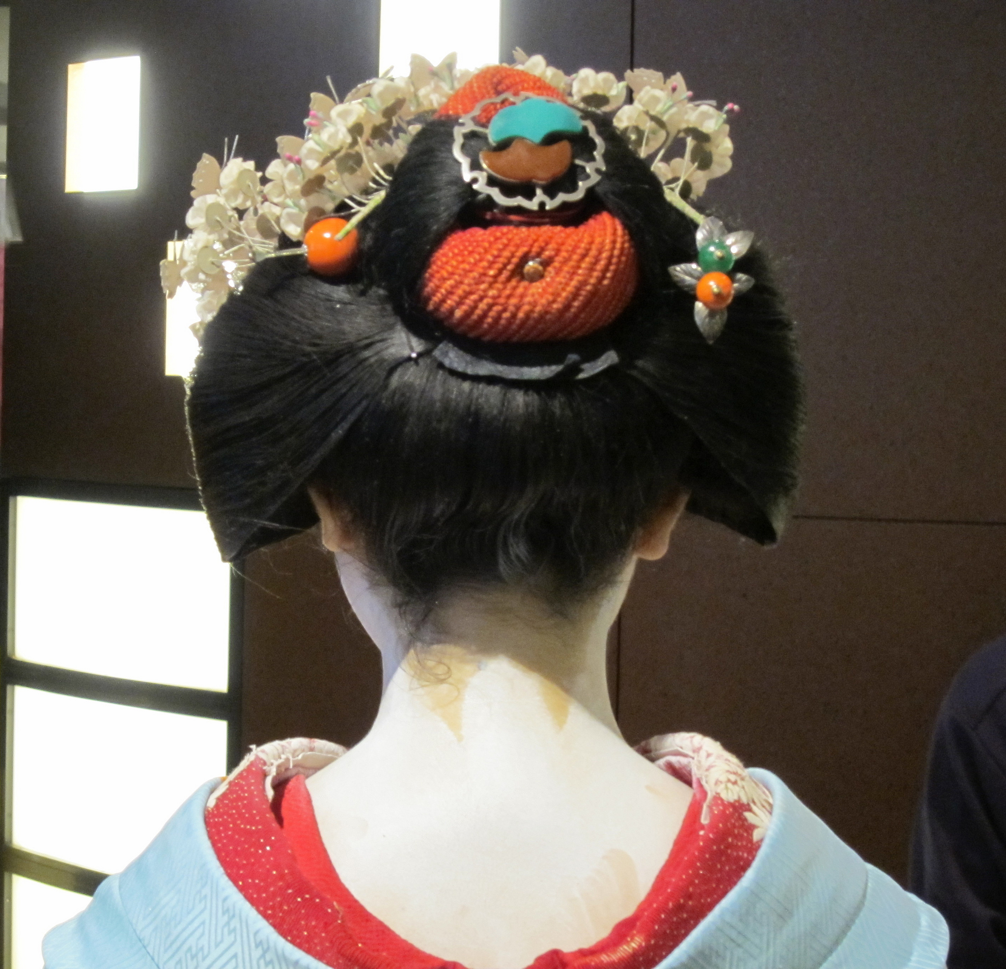 Wareshinobu hairstyle for junior maiko.